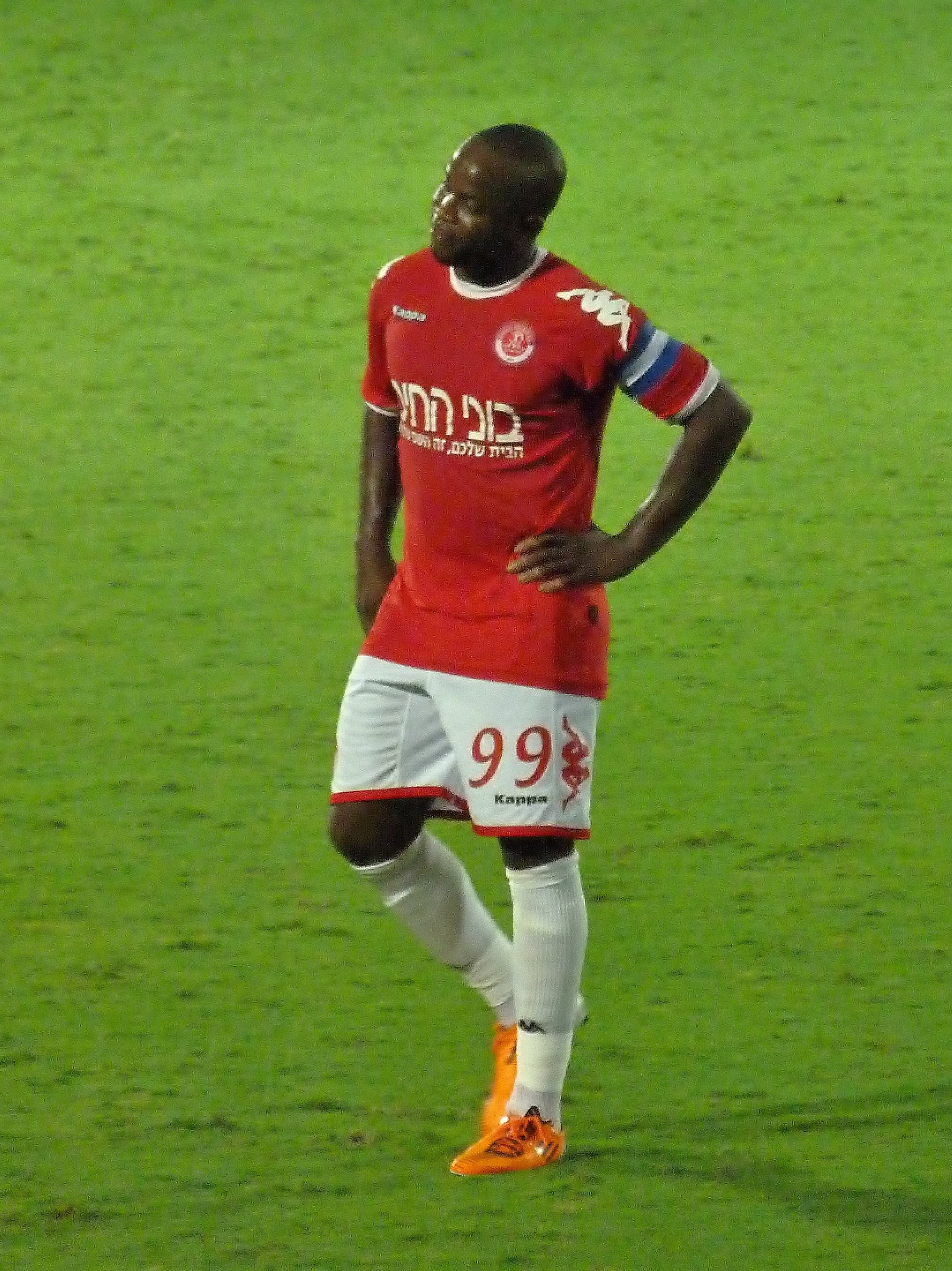 Toto Tamuz as Player of Hapoel Tel Aviv